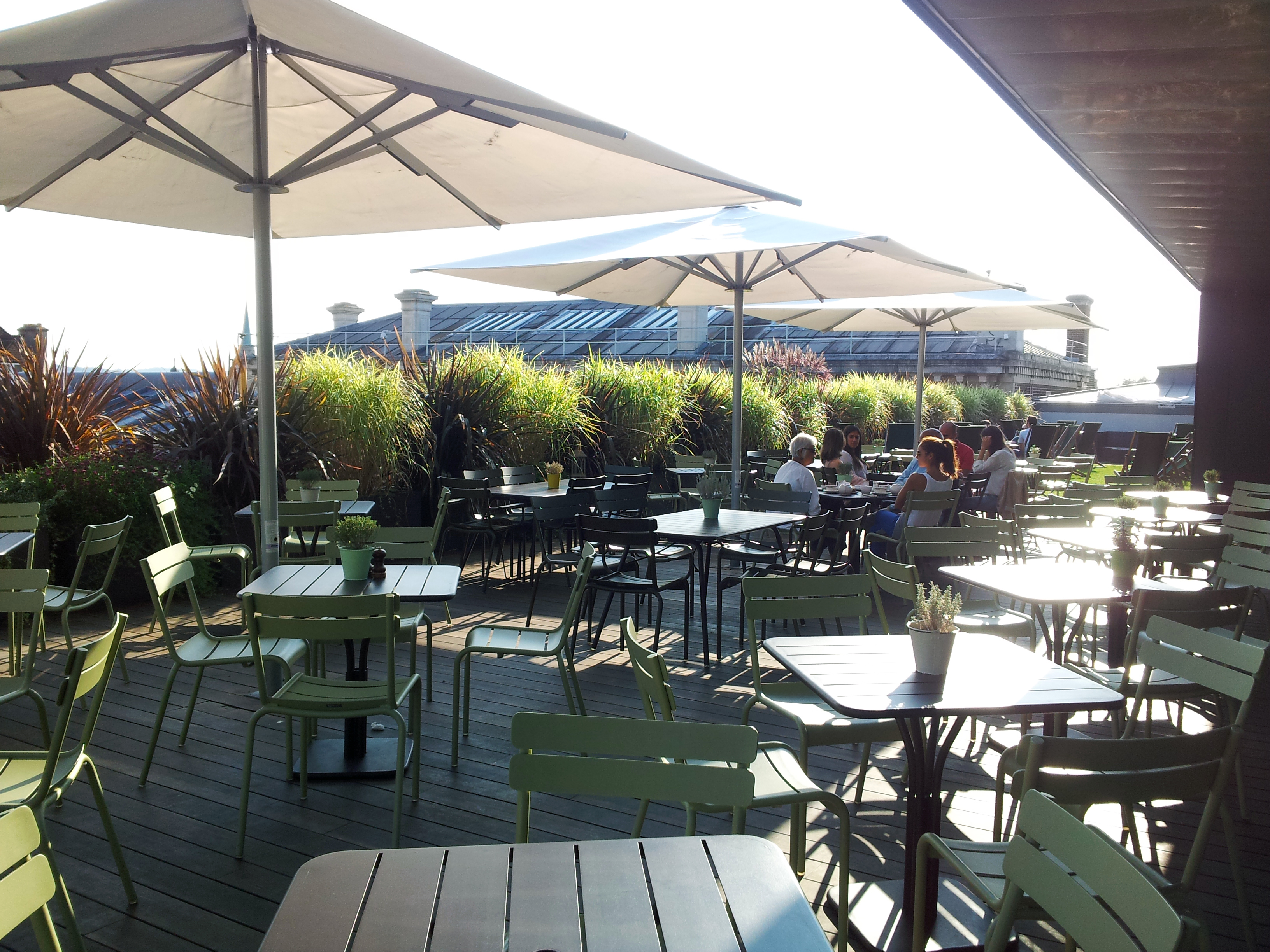 Ashmolean Museum Oxford Rooftop Restaurant Dining Room Terrace 2014